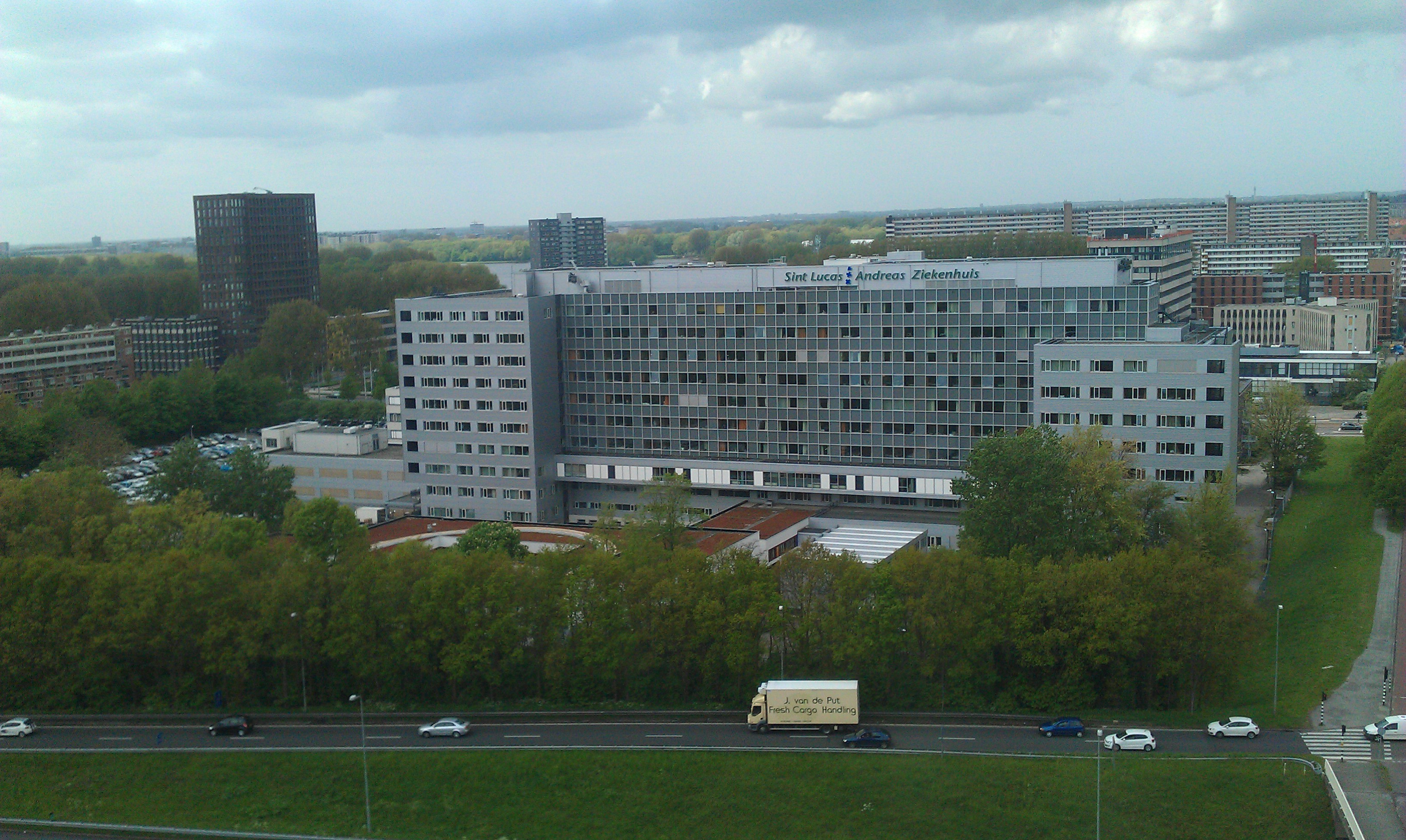 Hospital Saint Lucas Andreas in Amsterdam, The Netherlands